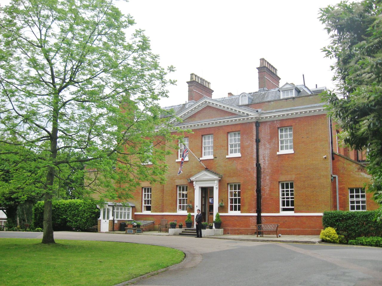 The Bower House, Havering-atte-Bower, Essex